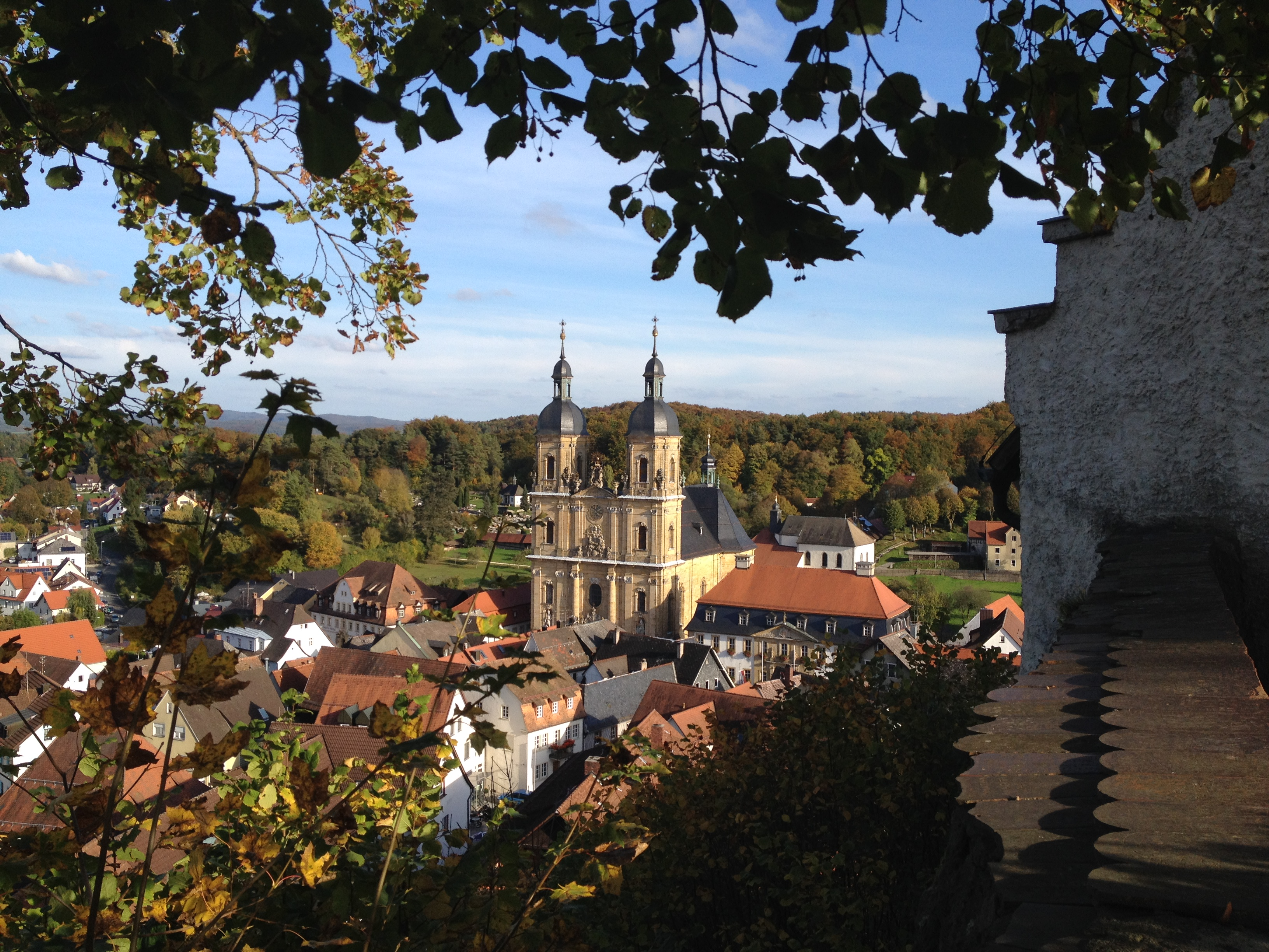 duitsland - bayern - franken - oberfranken - fränkische schweiz - gößweinstein - burg - aussicht basilika